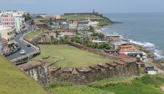 La Perla from Castillo San Cristobal in San Juan, Puerto Rico.